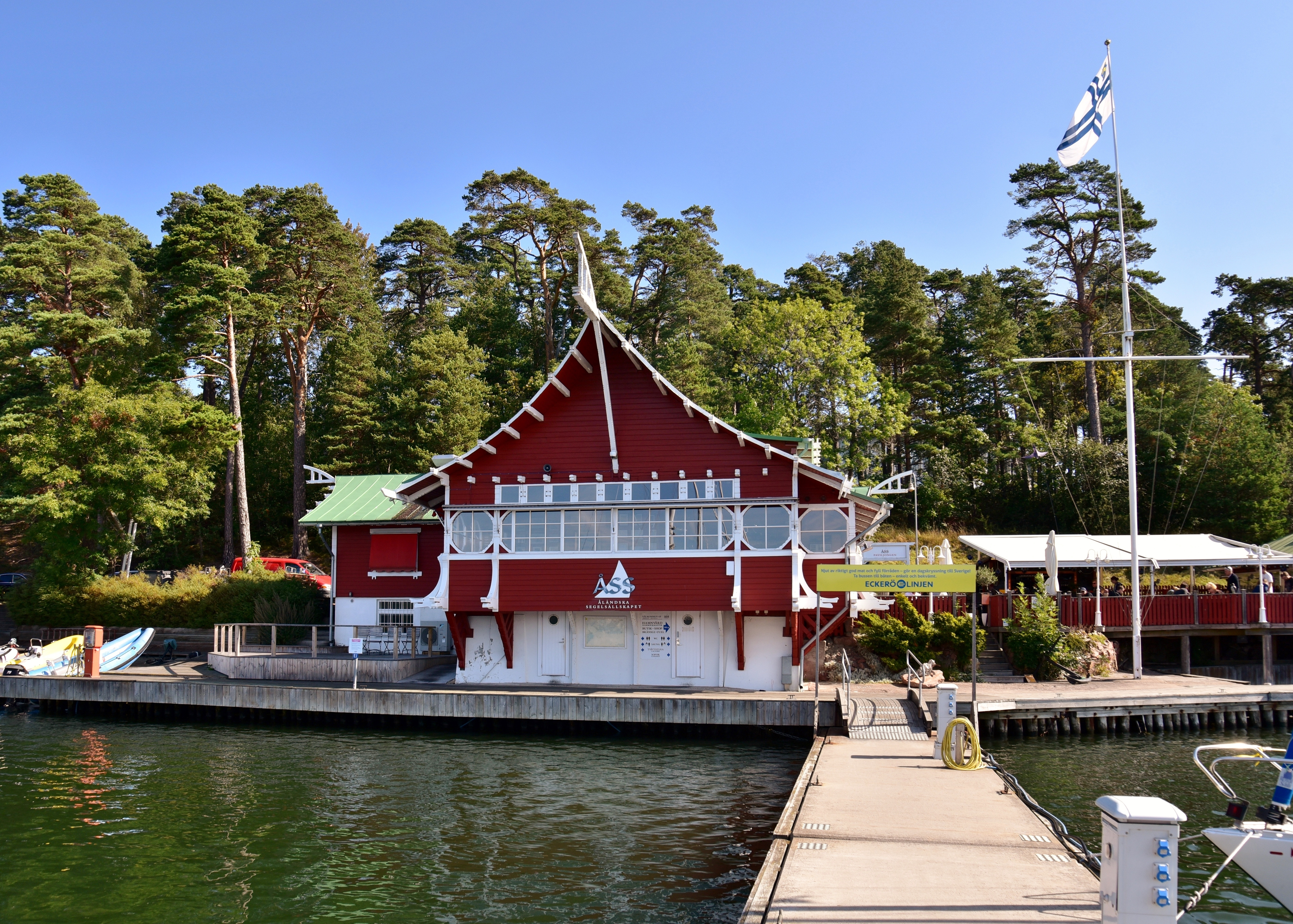 View of the Segelpaviljongen, the clubhouse of the Åländska Segelsällskapet (Åland Sailing Society), in Mariehamn, Åland Islands, Finland